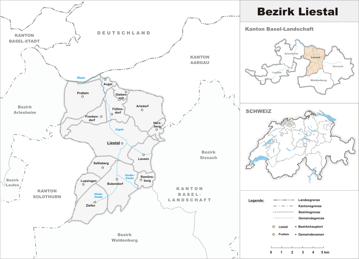 Municipalities in the district of Liestal